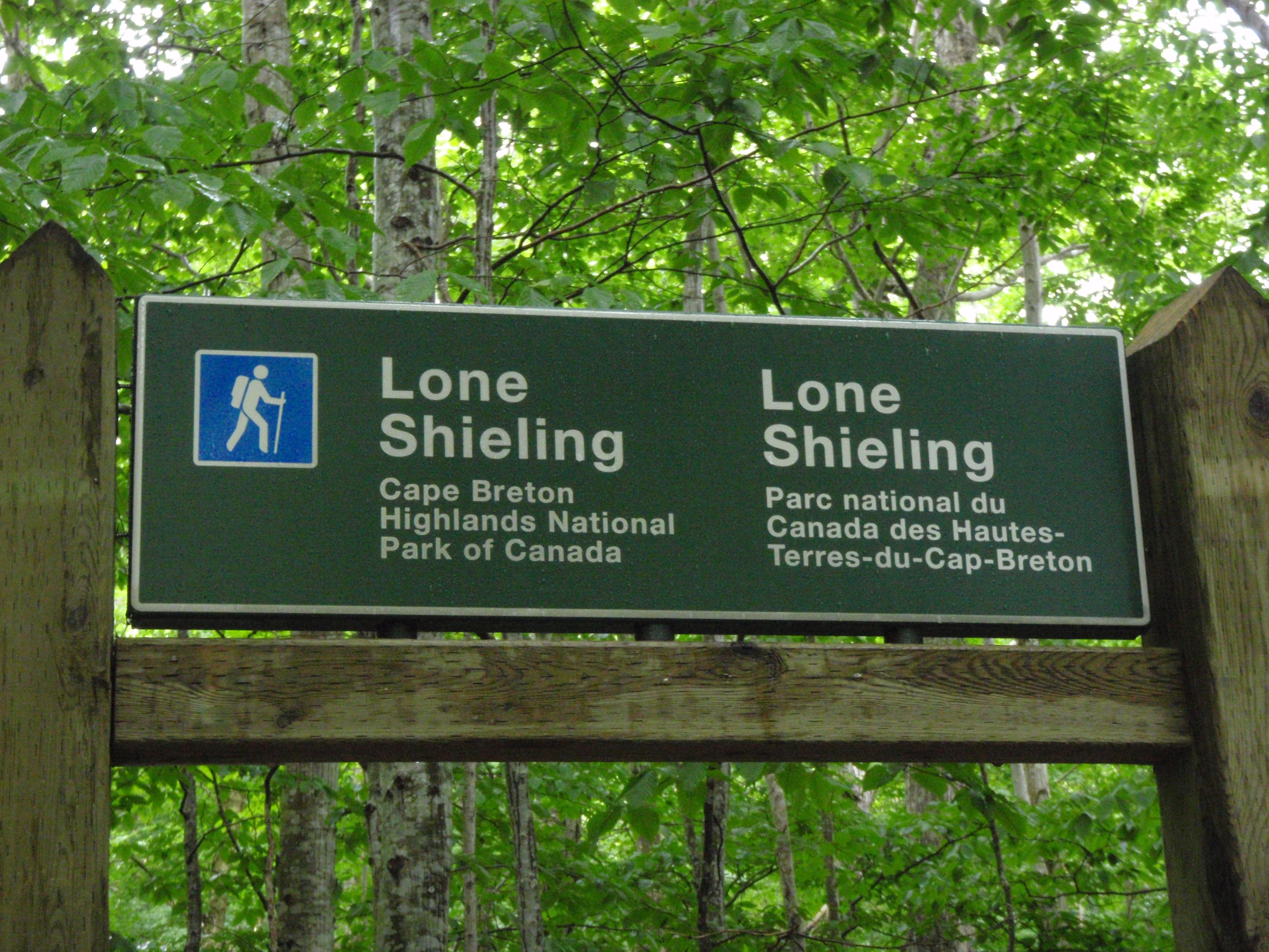 Lone Shieling trail sign, for the walking trail leading to the Lone Shieling, in Cape Breton Highlands National Park.